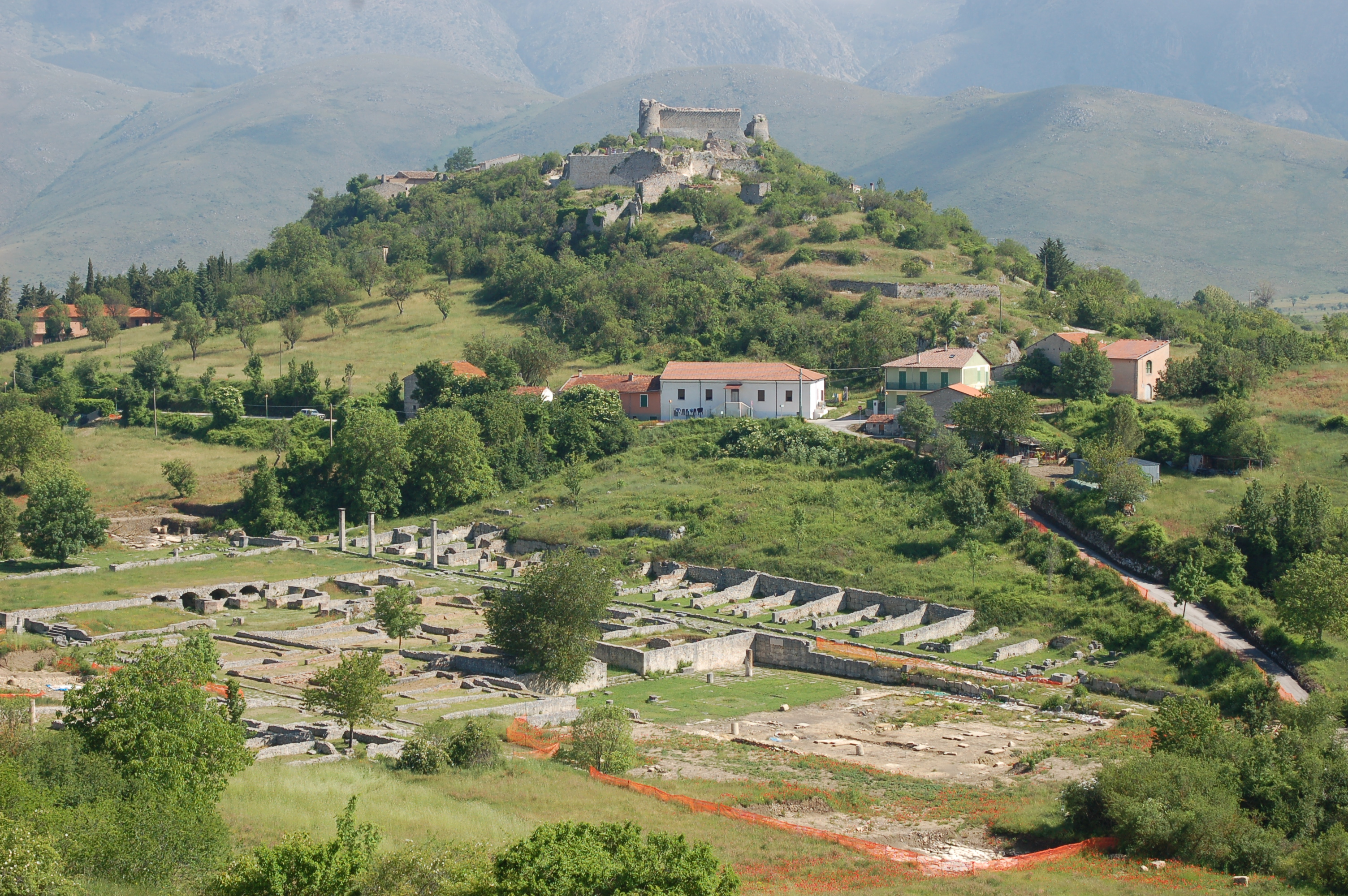 Panoramic view of archaeological site of Alba Fucens, Abruzzo, Italy